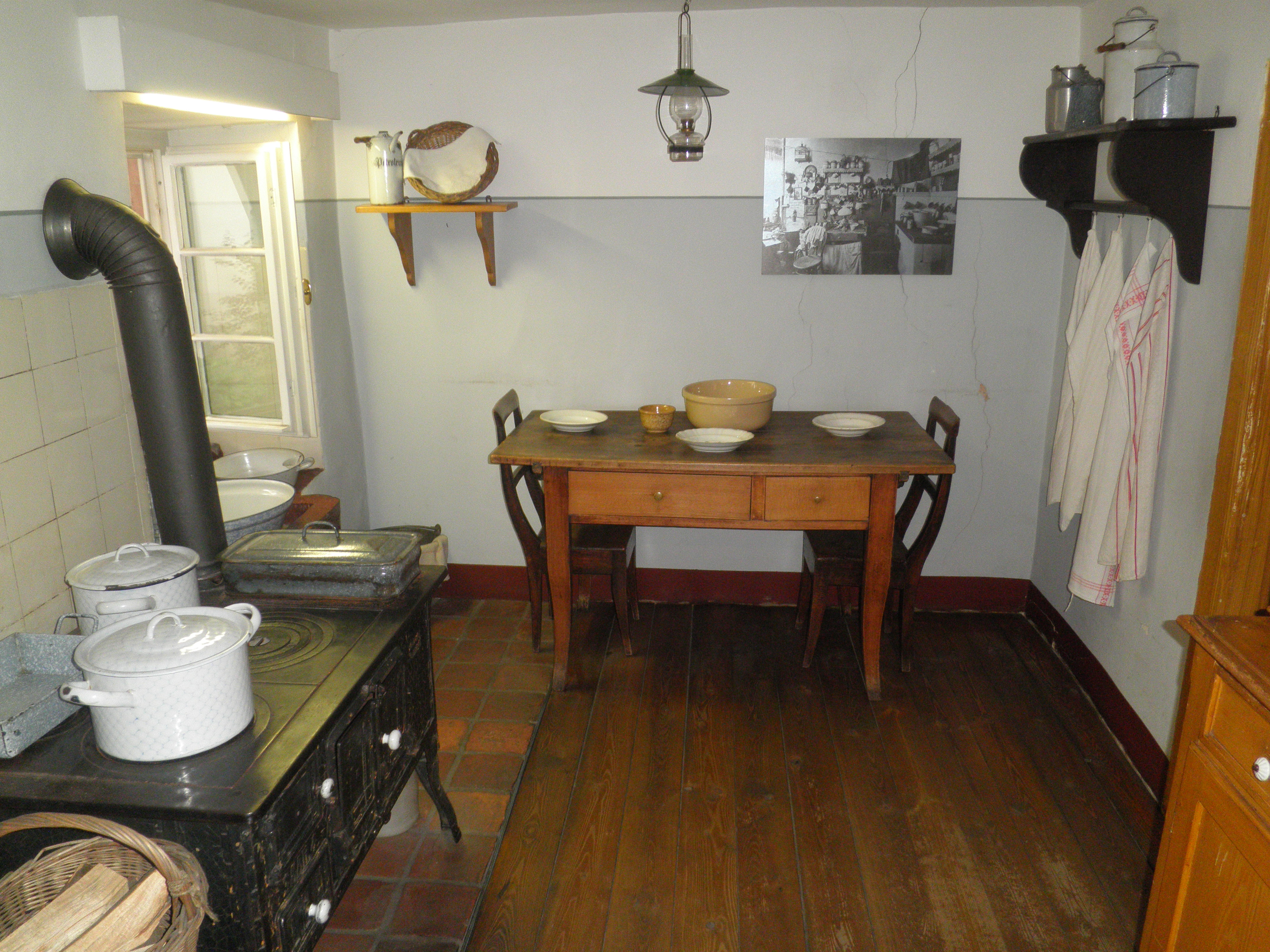 Ebert's birthplace:kitchen